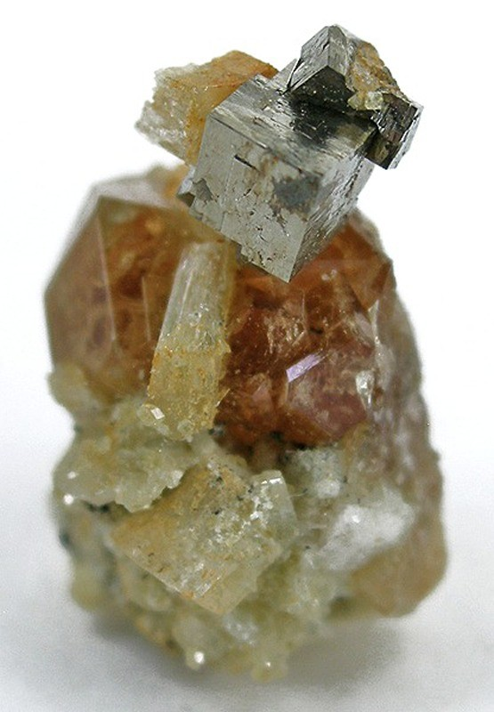 Pyrite, Grossular, Diopside Locality: Belvidere Mountain Quarries (Vermont Asbestos Group mine; VAG mine; Ruberoid Asbestos mine; Eden Mills quarries), Lowell & Eden, Orleans & Lamoille Cos., Vermont, USA (Locality at ) Size: 1.8 x 1.3 x 1.1 cm. A fine, little thumbnail specimen. Ex. Ken Hollman Collection.